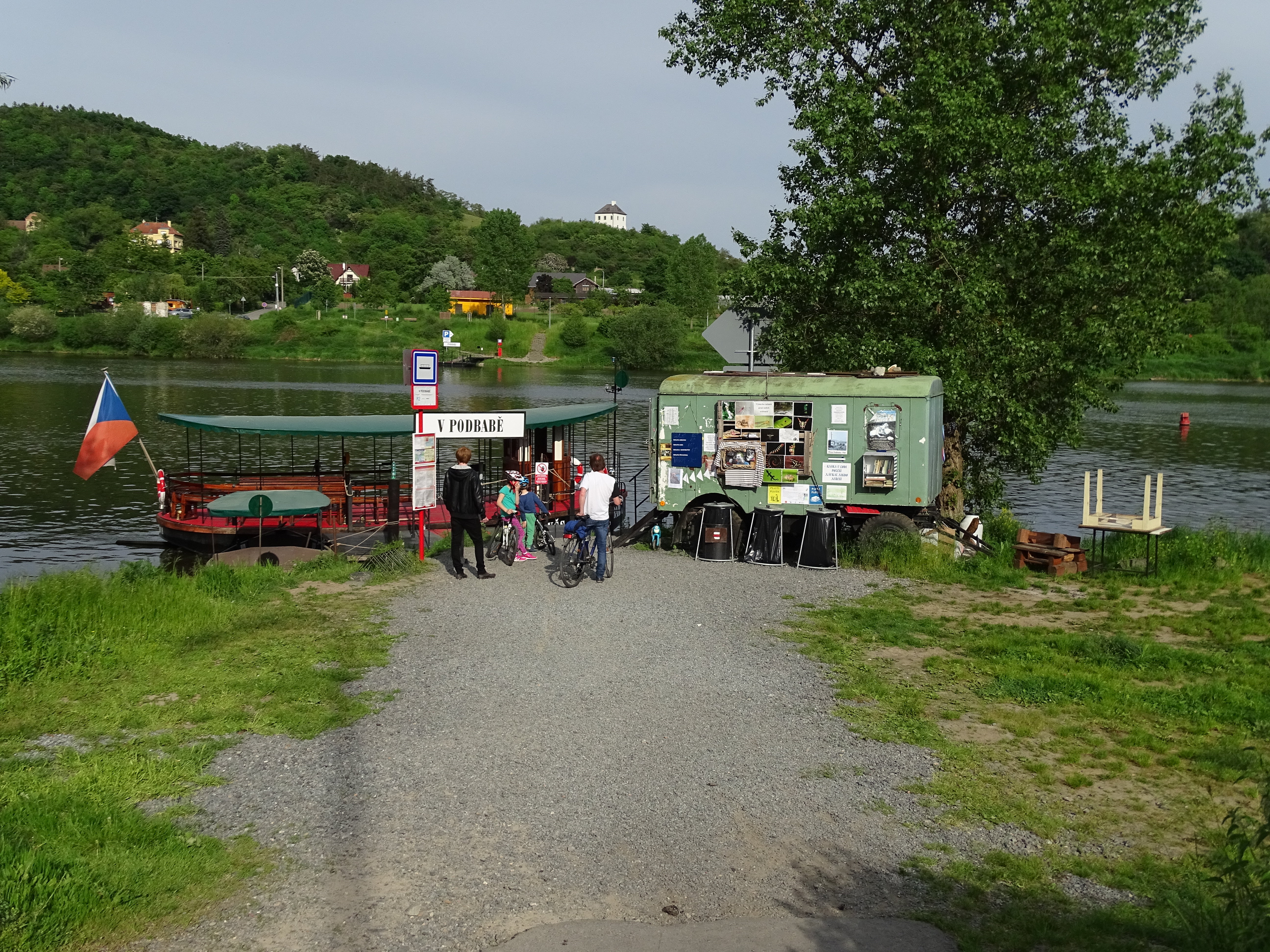 Prague-Sedlec, Czechia, Podhoří–Podbaba ferry, V Podbabě.